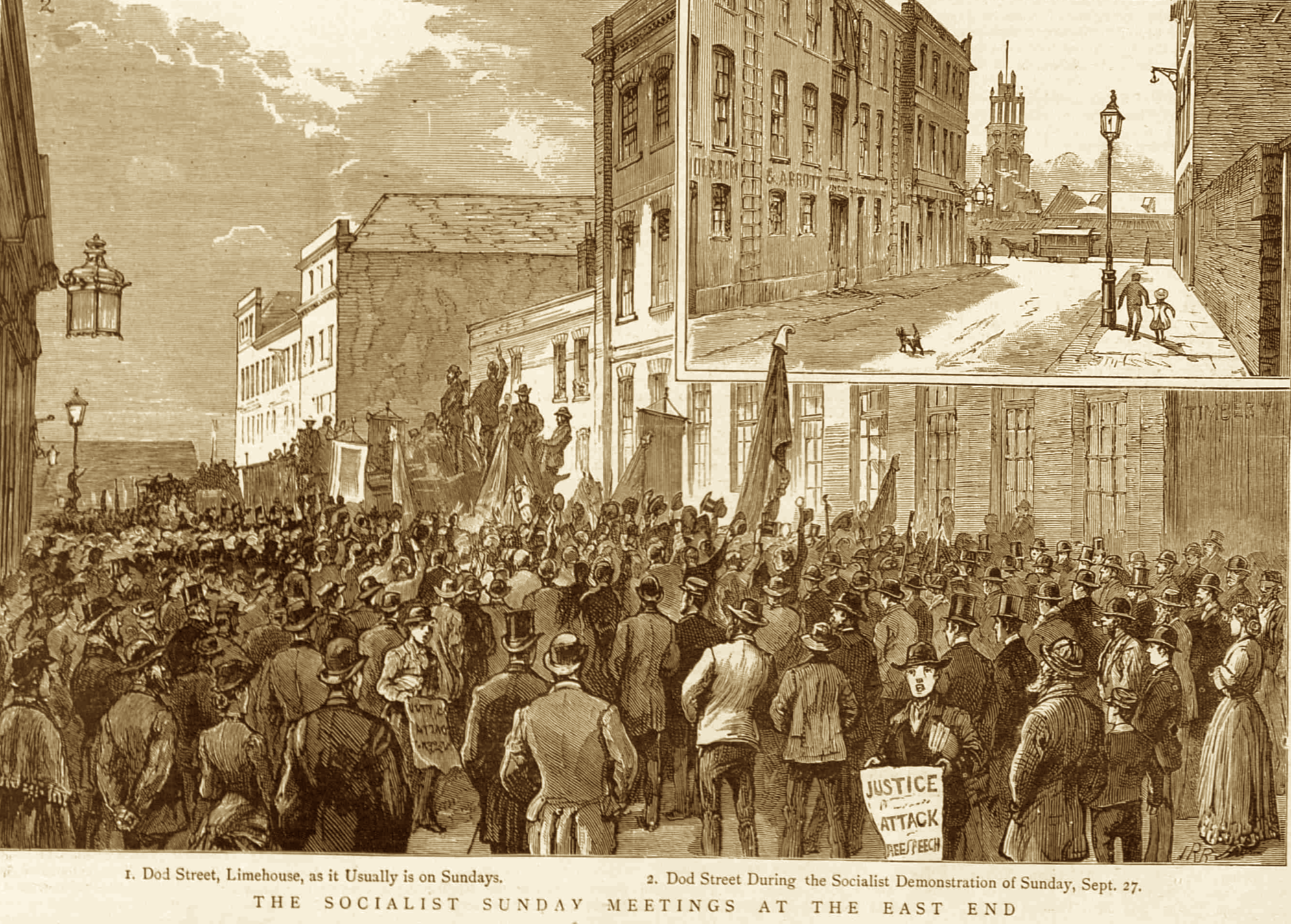 Socialist street meetings were held here during the 1880s and were addressed by Bernard Shaw, Eleanor Marx, William Morris and others.